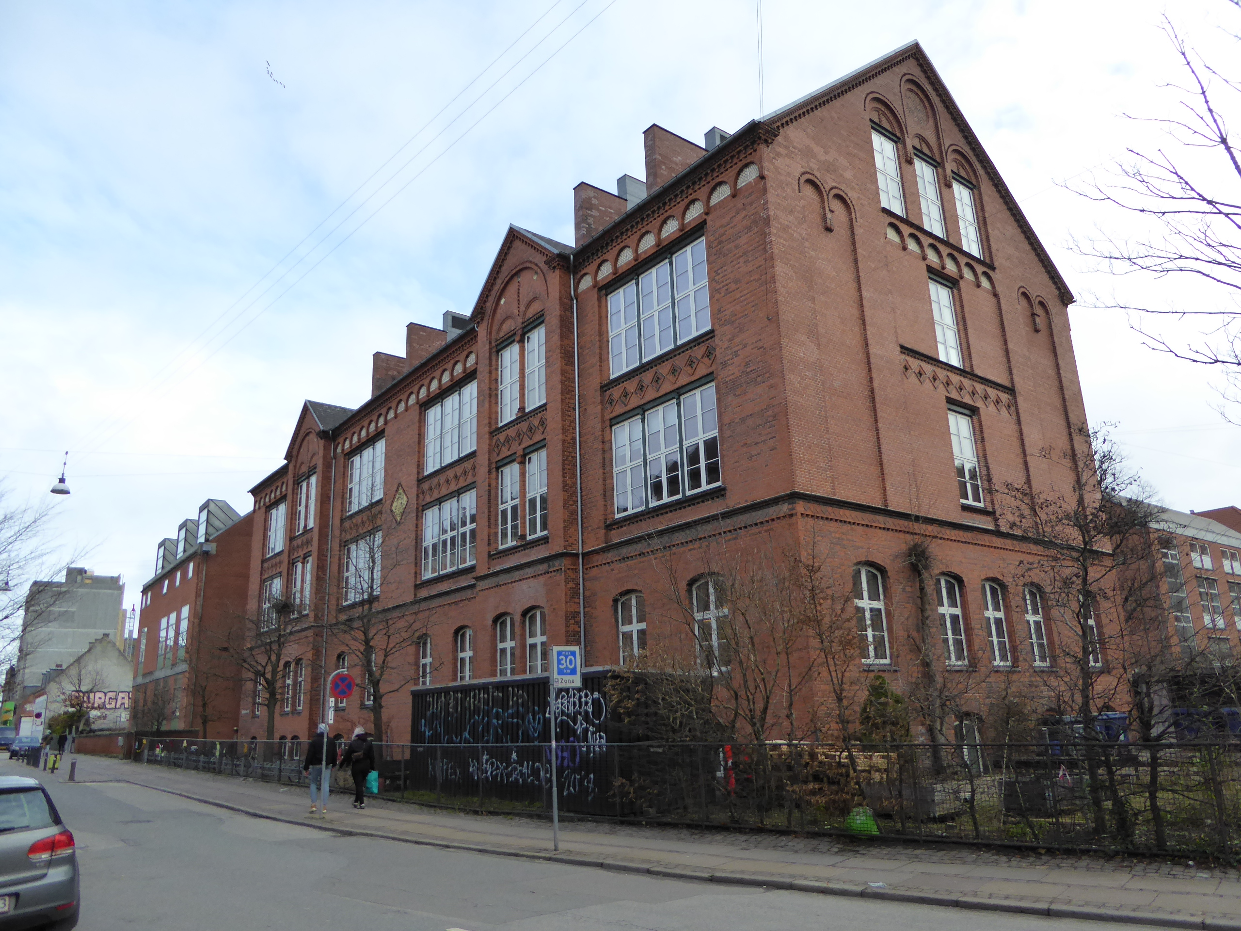 The school Rådmandsgade Skole at Rådmandsgade in Nørrebro in Copenhagen.